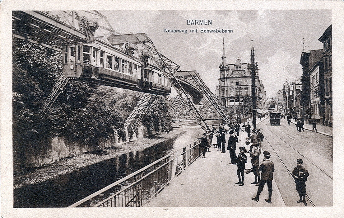 Postcard, undated ( ca.1914 ). Title: "Barmen - New way with suspended monorail"